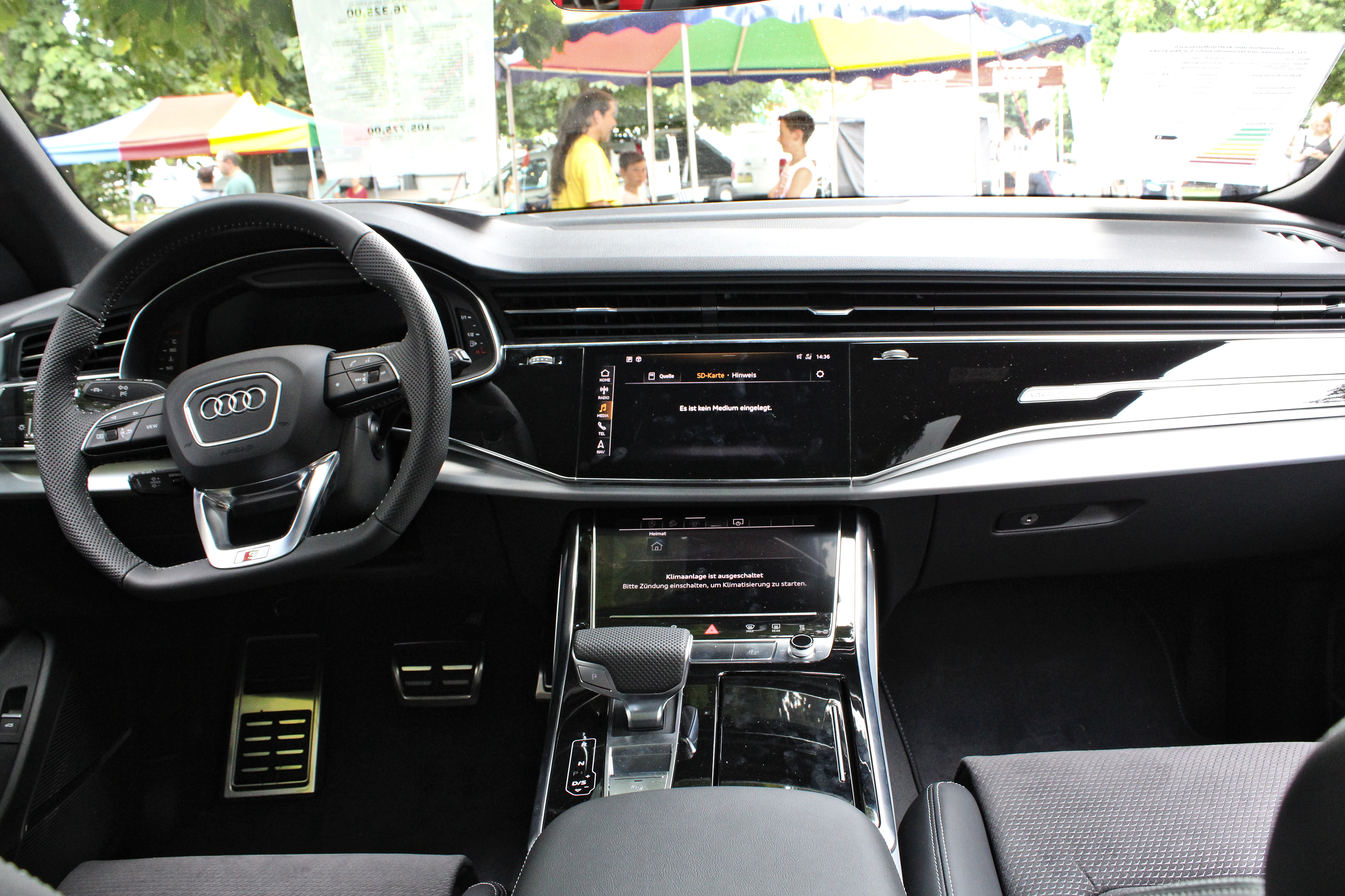 Audi Q8 at schloss Monrepos - Interior